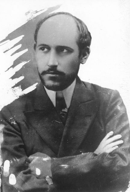 Hüseyn Cavid